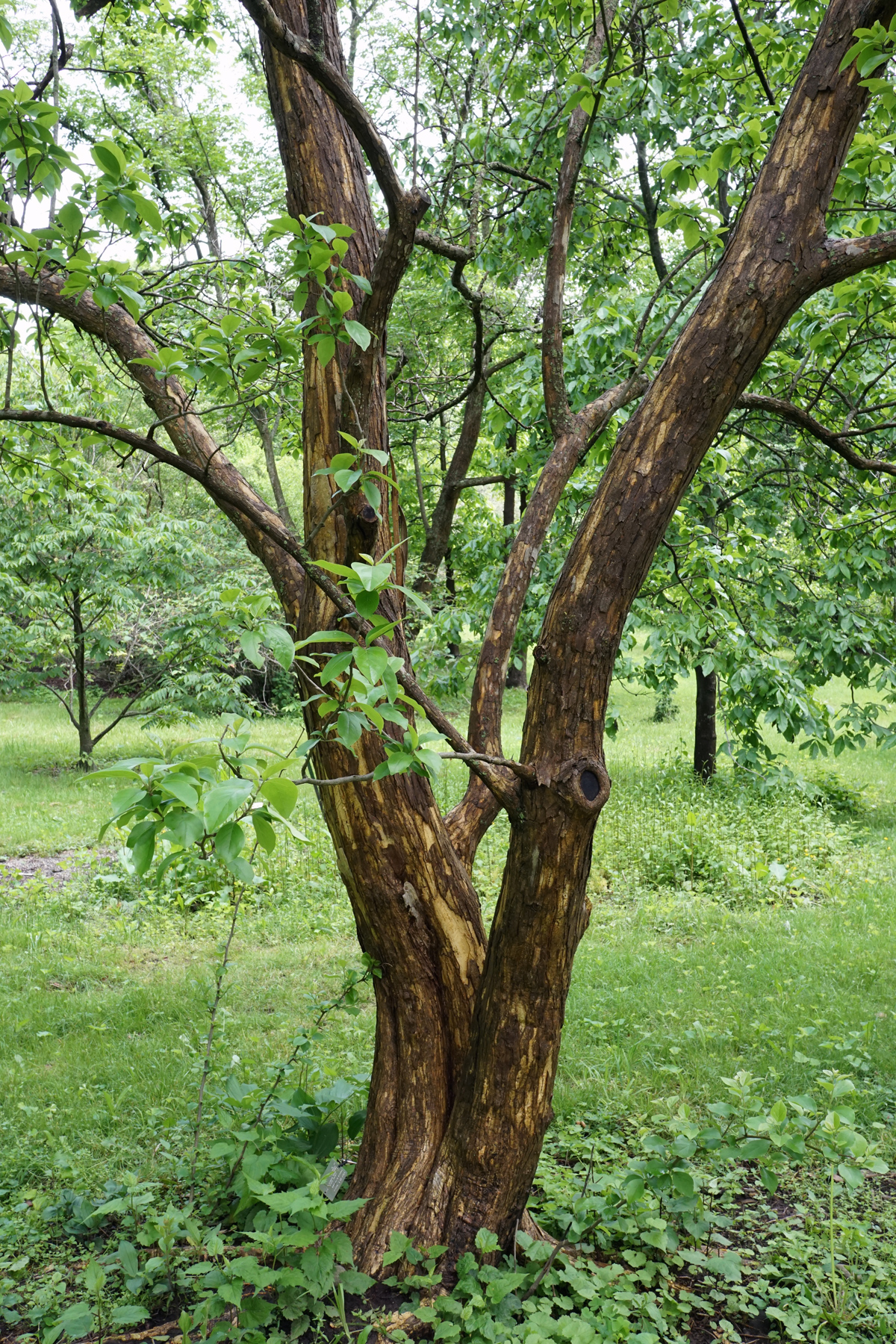 Cudrania tricuspidata